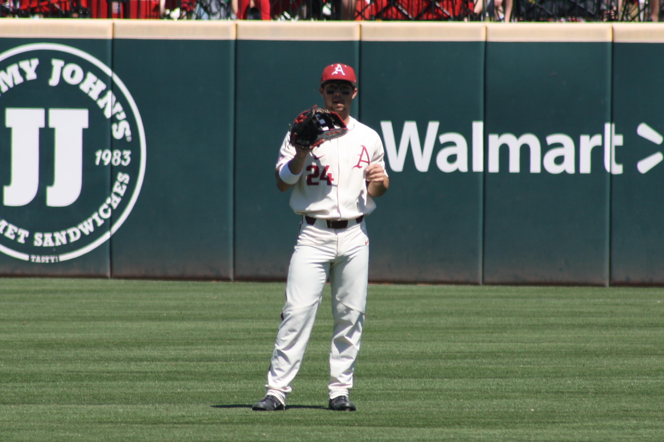 Dominic Fletcher plays centerfield for the Arkansas Razorbacks against the Mississippi State Bulldogs at Baum Stadium